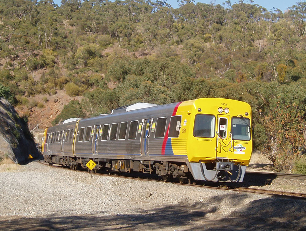 Sleeps Hill railway station, Lynton. TransAdelaide railcars 3131/3132 exiting Sleeps Hill Tunnel. 09.41 Belair to Adelaide, 9 May 2005.